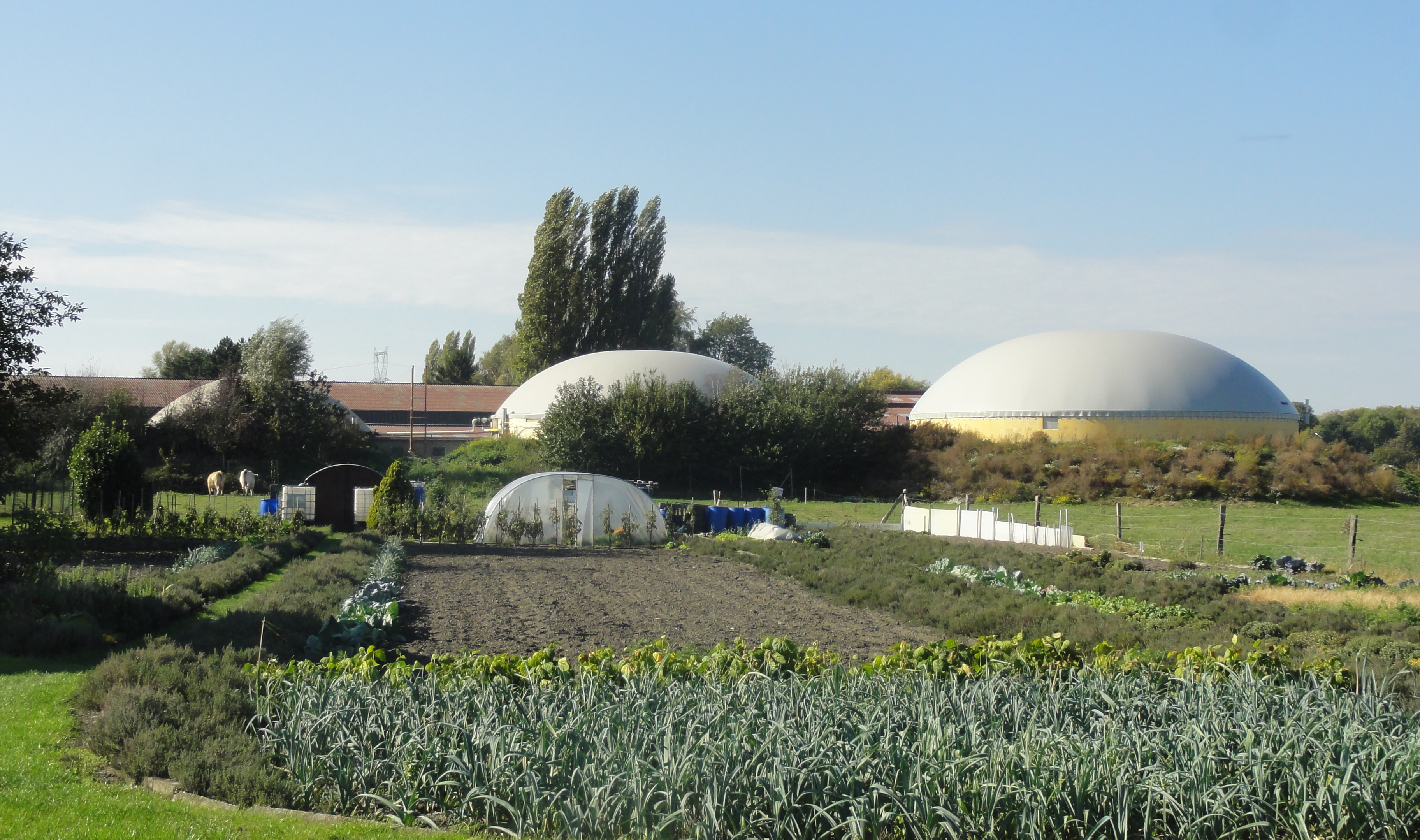 Depicted place: Q58488564